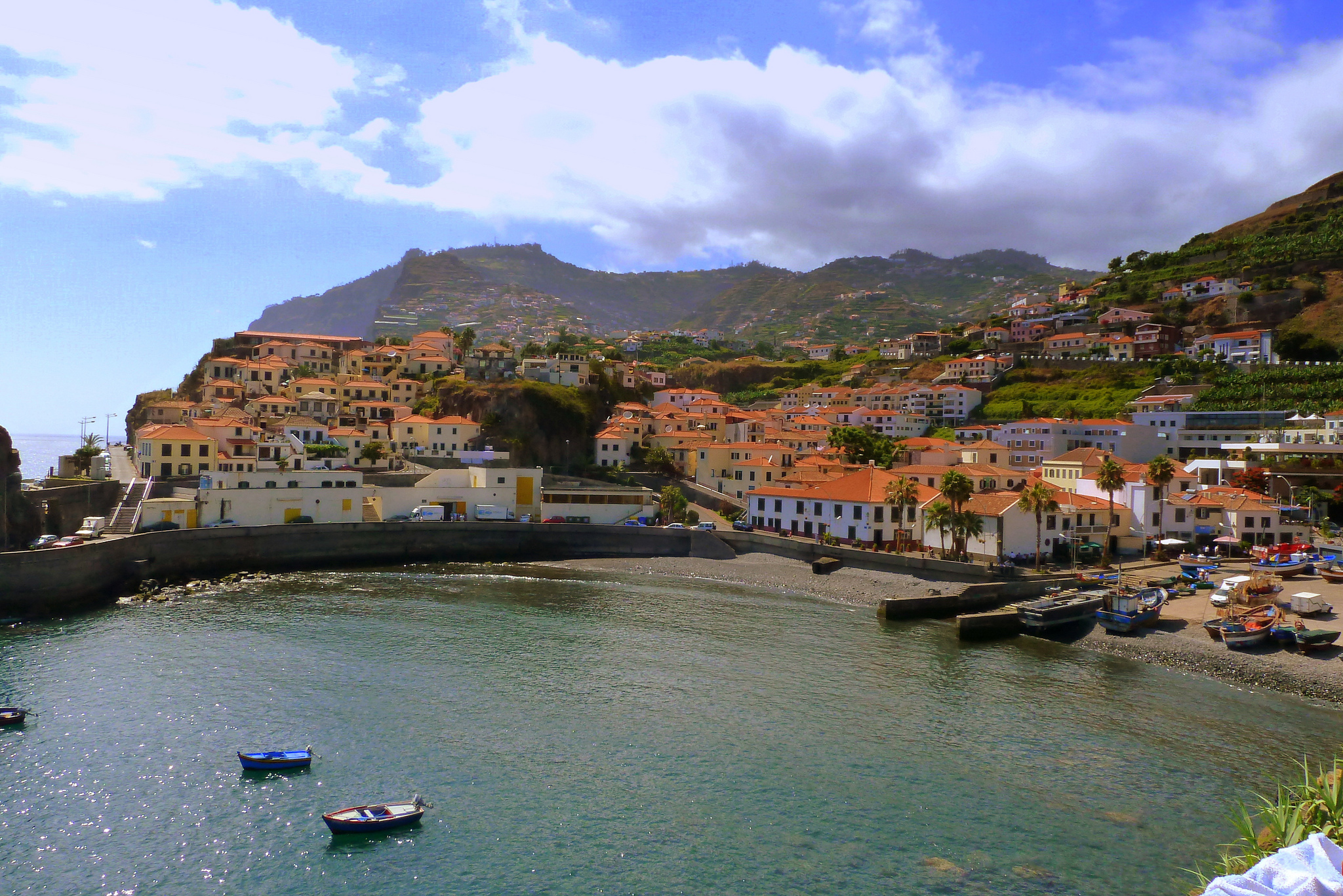 Photo taken from the same position as Winston Churchill's painting.